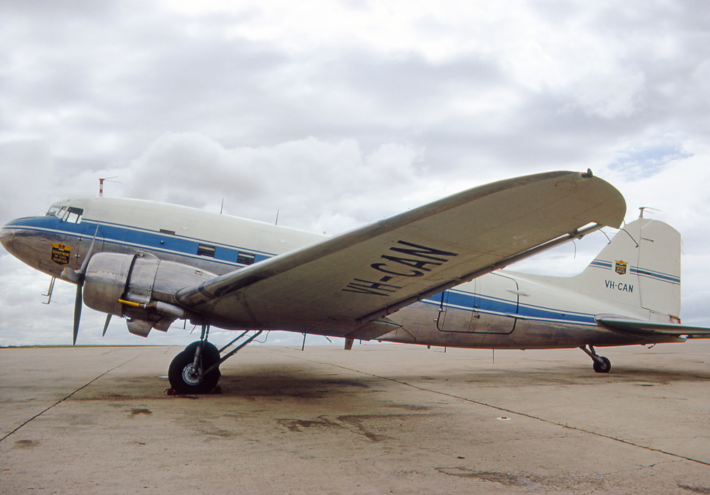 Douglas C-47A Skytrain VH-CAN of the Australian Department of Civil Aviation at Melbourne Essendon in 1971